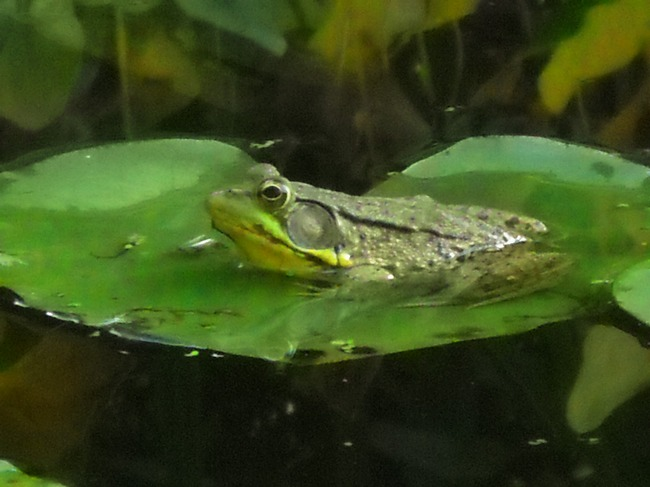 Frog photographed in one of the ponds in the garden at Kings Gap Environmental Education and Training Center in Cumberland County, Pennsylvania, USA..